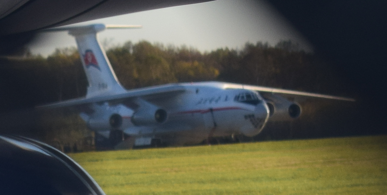 Might be related to "N.K. cargo jet's Vladivostok flight suggests Kim's Russia visit imminent"